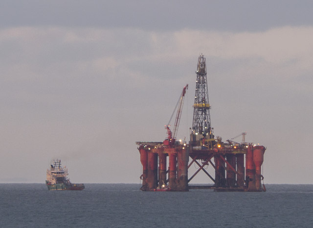 The drilling rig 'Byford Dolphin' off the east Antrim coastline near the mouth of Belfast Lough. The rig has been towed here from the North Sea and is due to be dry-docked at Harland and Wolff, Belfast, in January 2015. The large tug on the left is the 'Havila Neptune' which is towing the rig; you may also be able to make out the small tug 'Eileen McLoughlin' which has travelled out from Belfast (possibly to deliver supplies - it appeared that a crane from the rig was being used to winch something up).